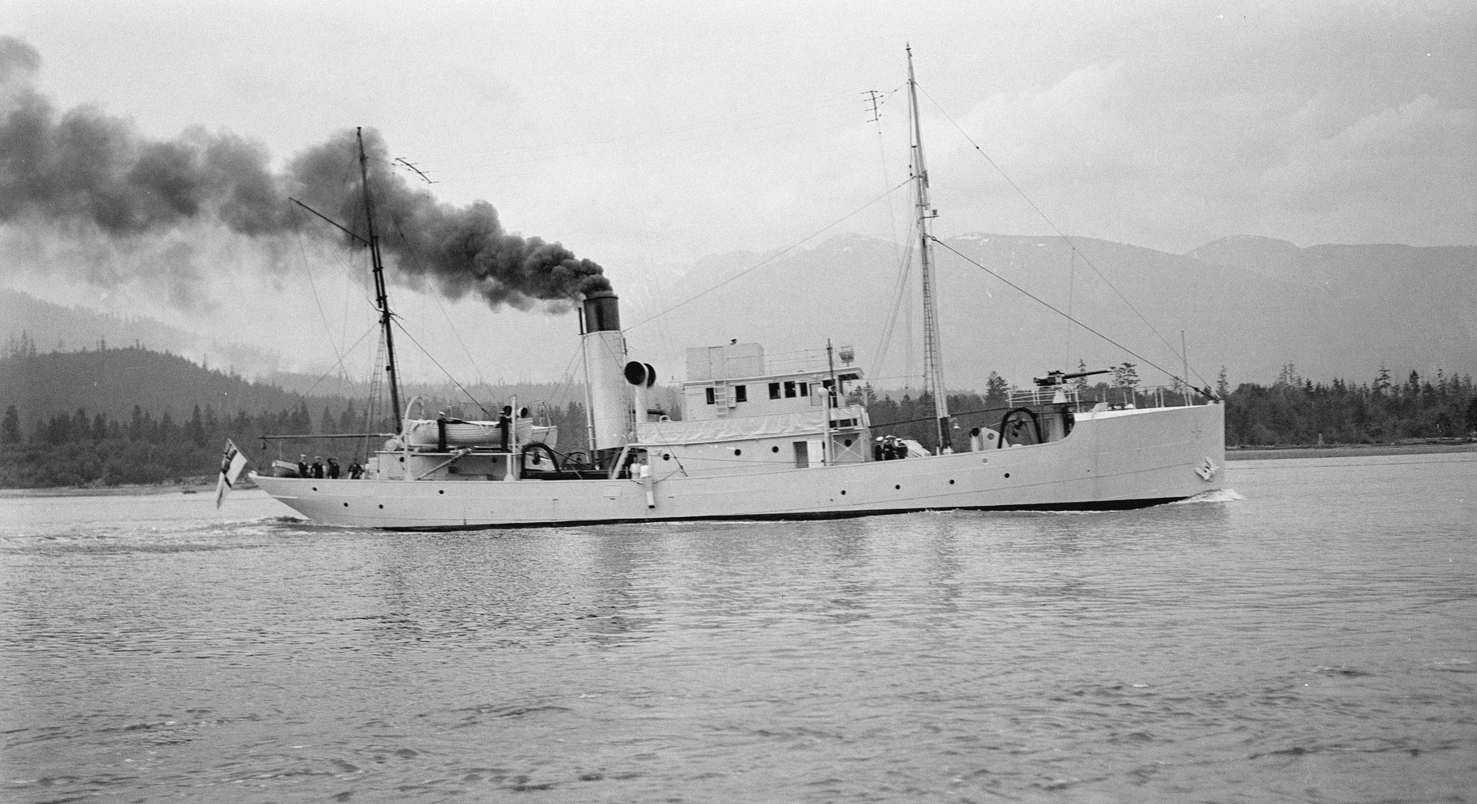 HMCS Armentieres at Vancouver.